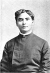 Swami Abhedananda (1866-1939), a direct disciple of Sri Ramakrishna , in his youth ca 1890s.